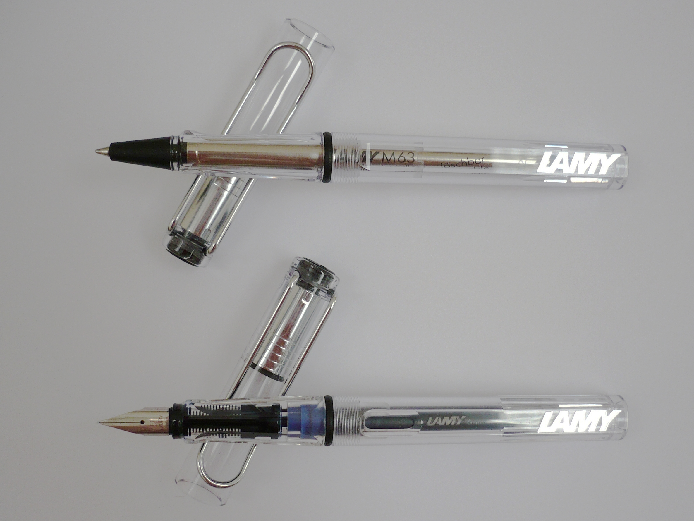 Lamy Vista rollerball pen (top) and Lamy Vista fountain pen. The plastic body and cap of these pens are made of transparent Acrylonitrile Butadiene Styrene (ABS).